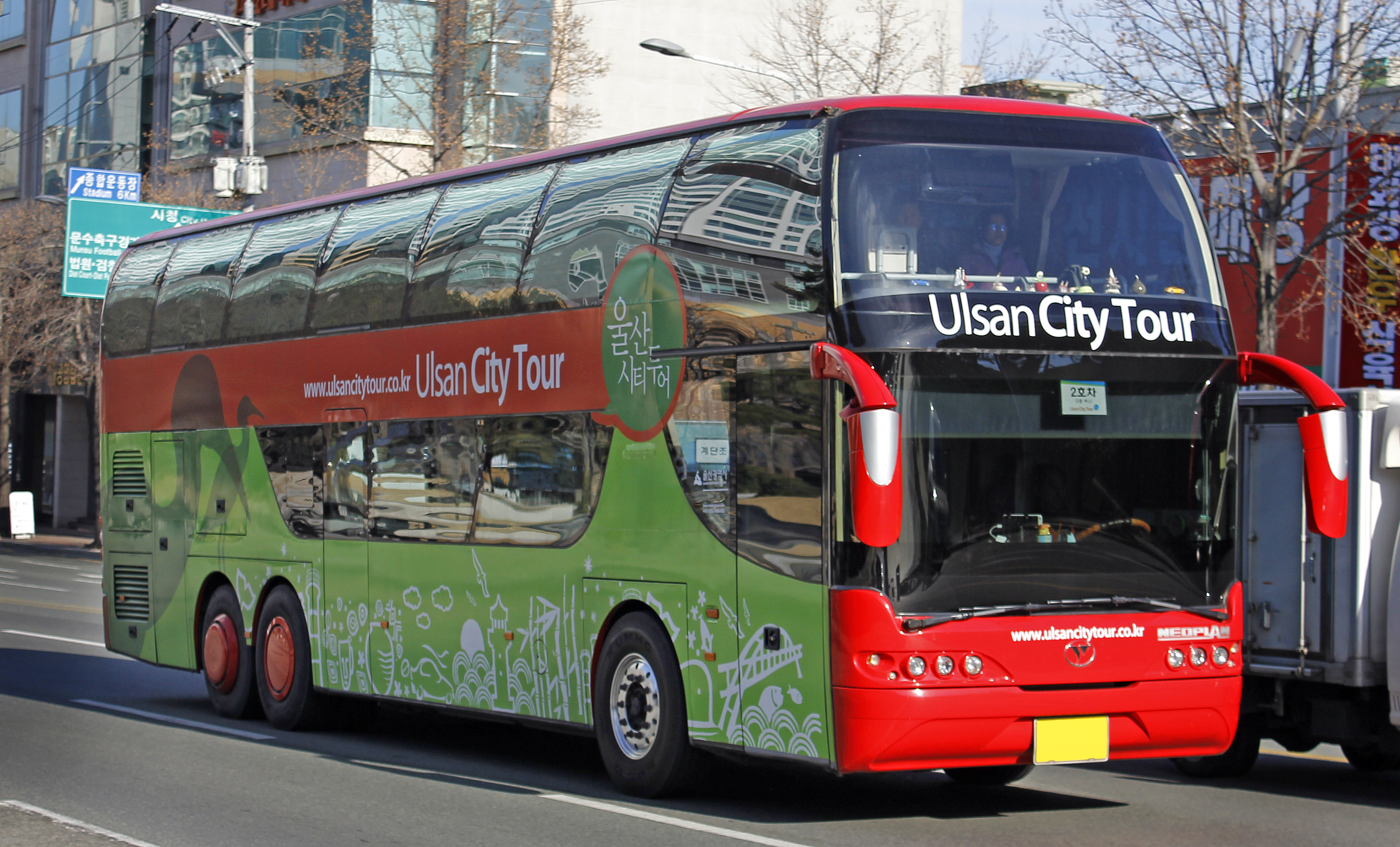 Ulsan City Tour Bus Neoplan Double-Decker Motorcoach